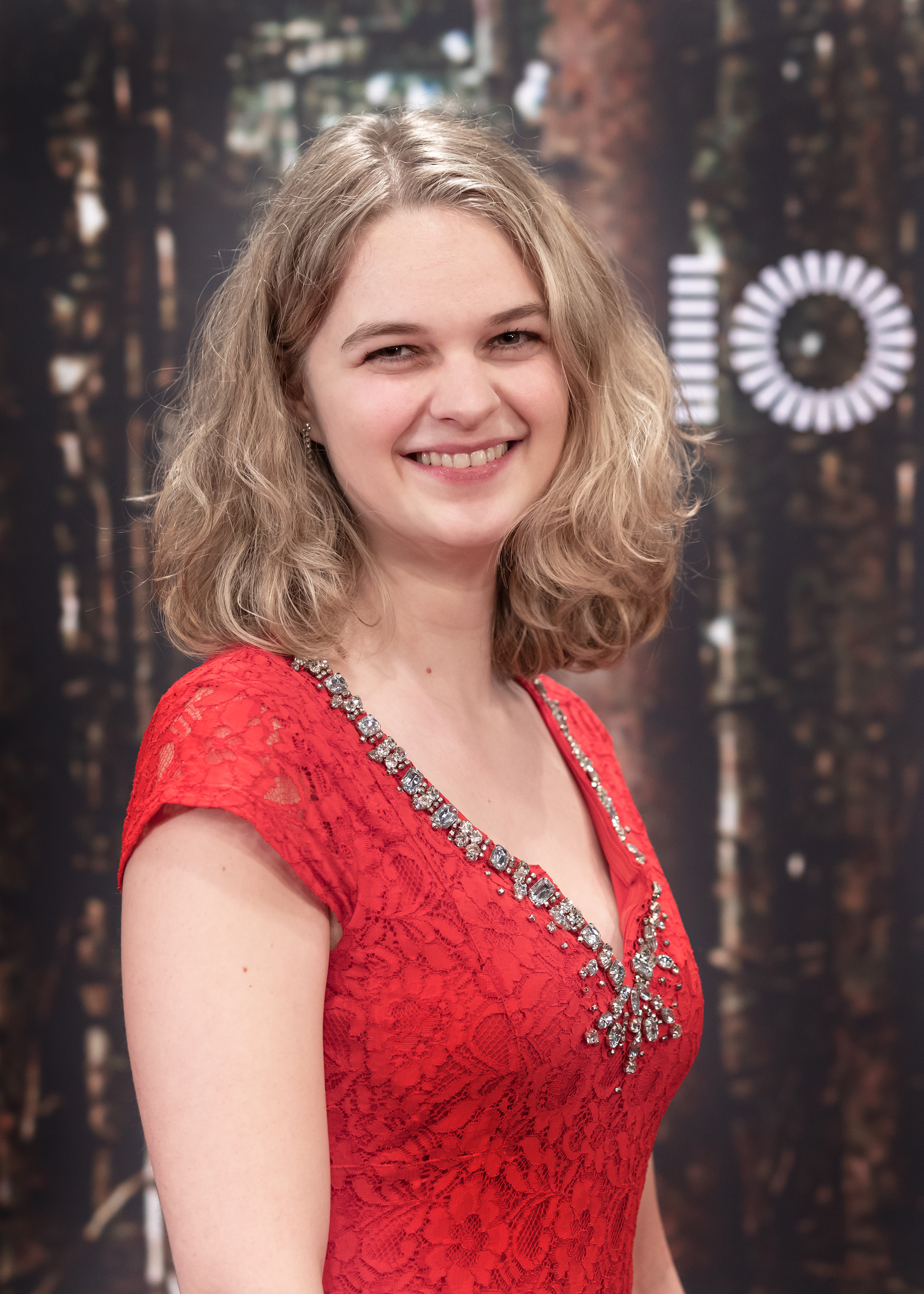 Film editor Lisa Zoe Geretschläger at the Austrian Film Awards 2020 in the Auditorium Grafenegg at Grafenegg Castle, Lower Austria, Austria).